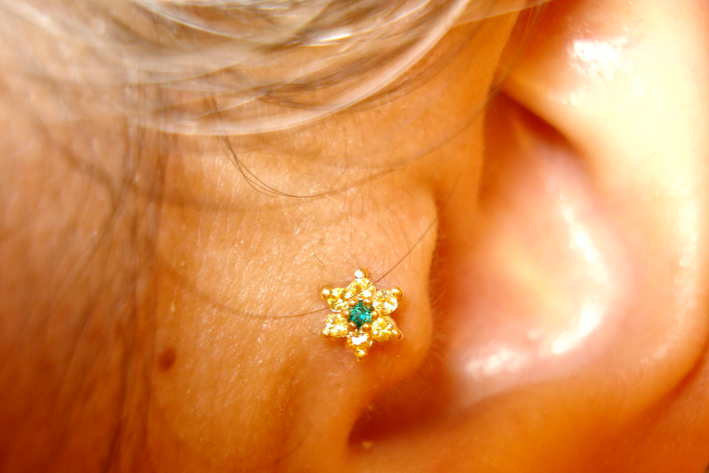 Tragus piercing of the tragus